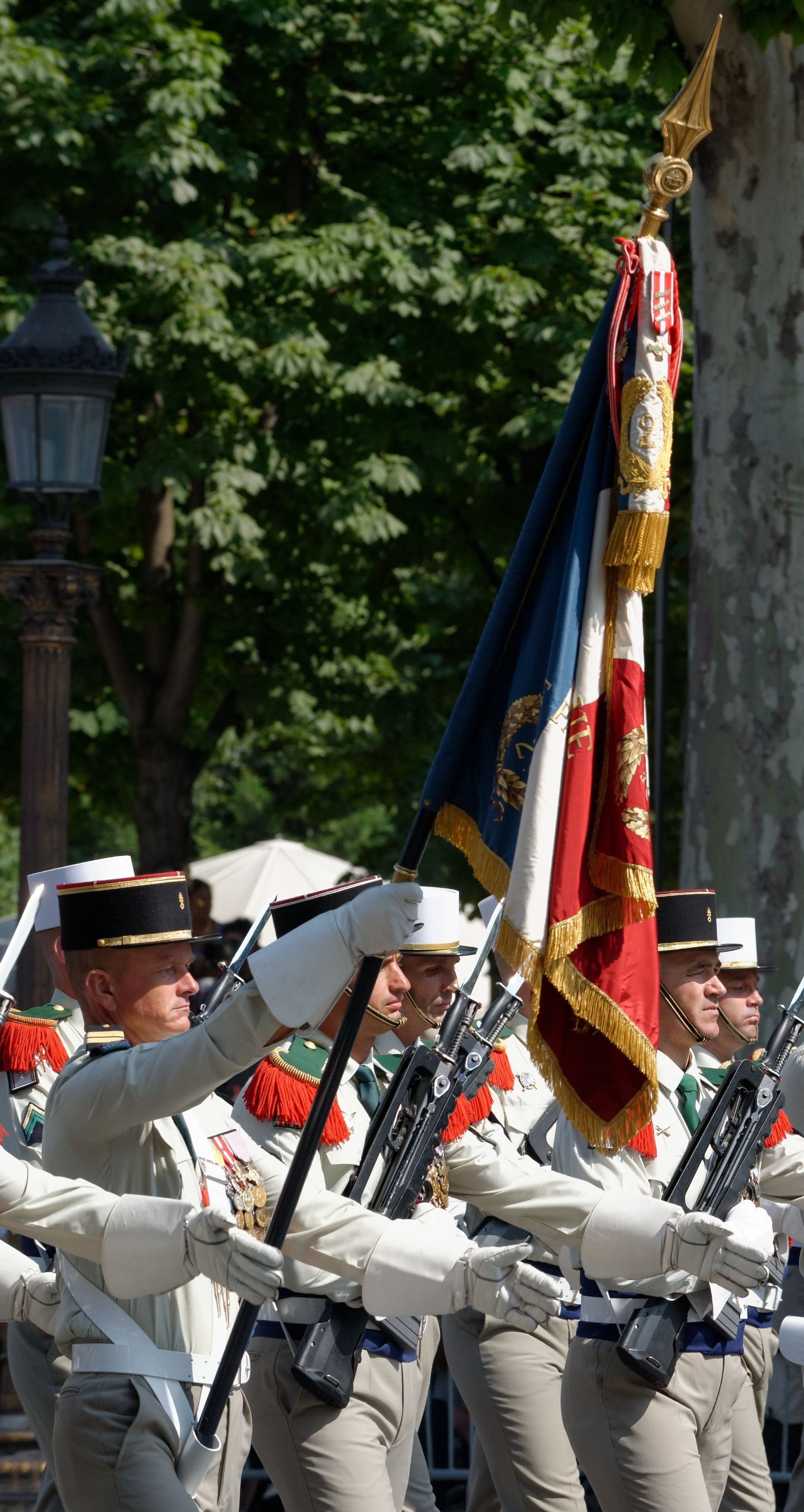 Colour guards of the 2nd Foreign Parachute Regiment at the Bastille Day 2013 military parade on the Champs-Élysées in Paris.